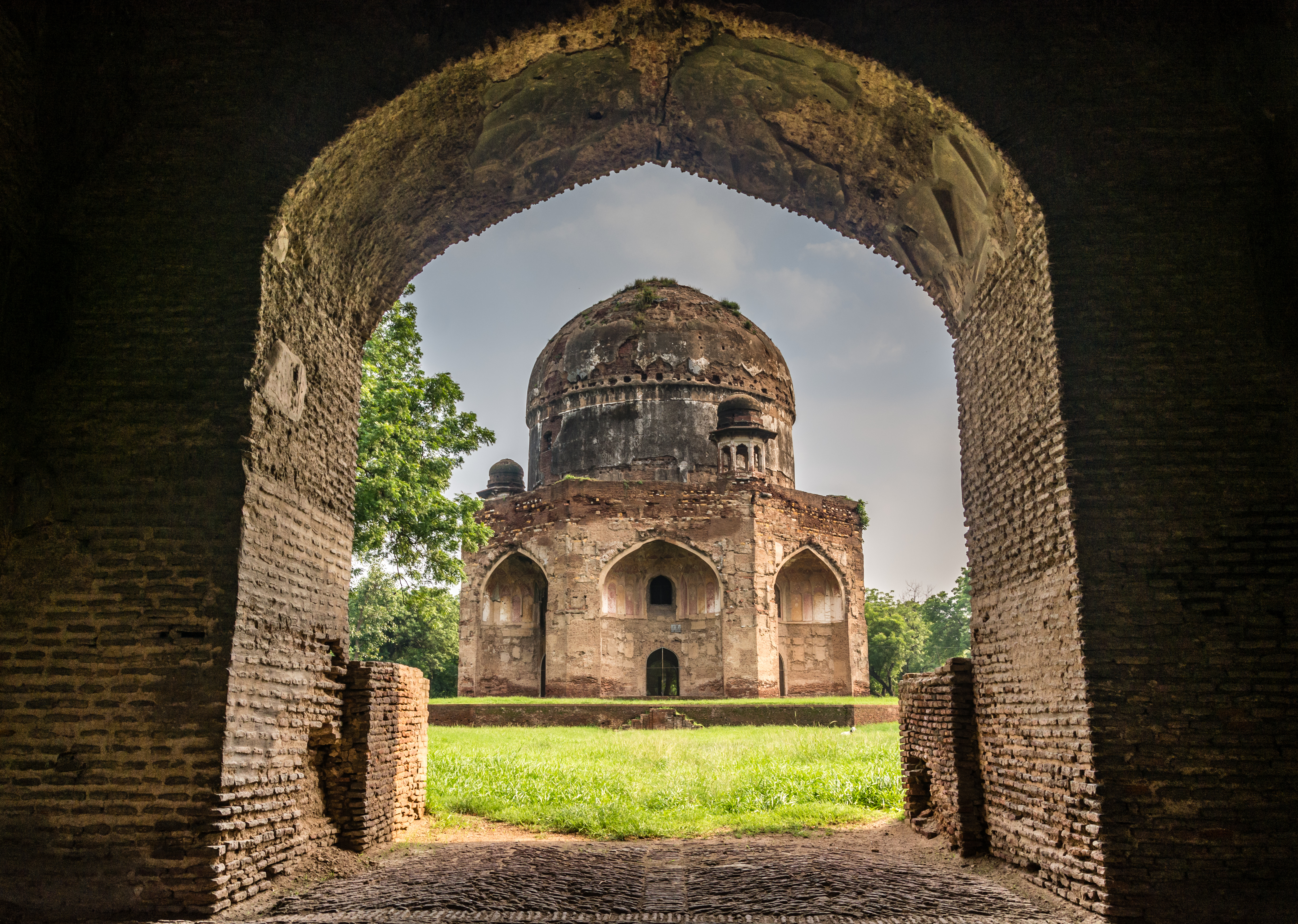 Ali Mardan Khan's Tomb and Gateway This is a photo of a monument in Pakistan identified as the PB-41